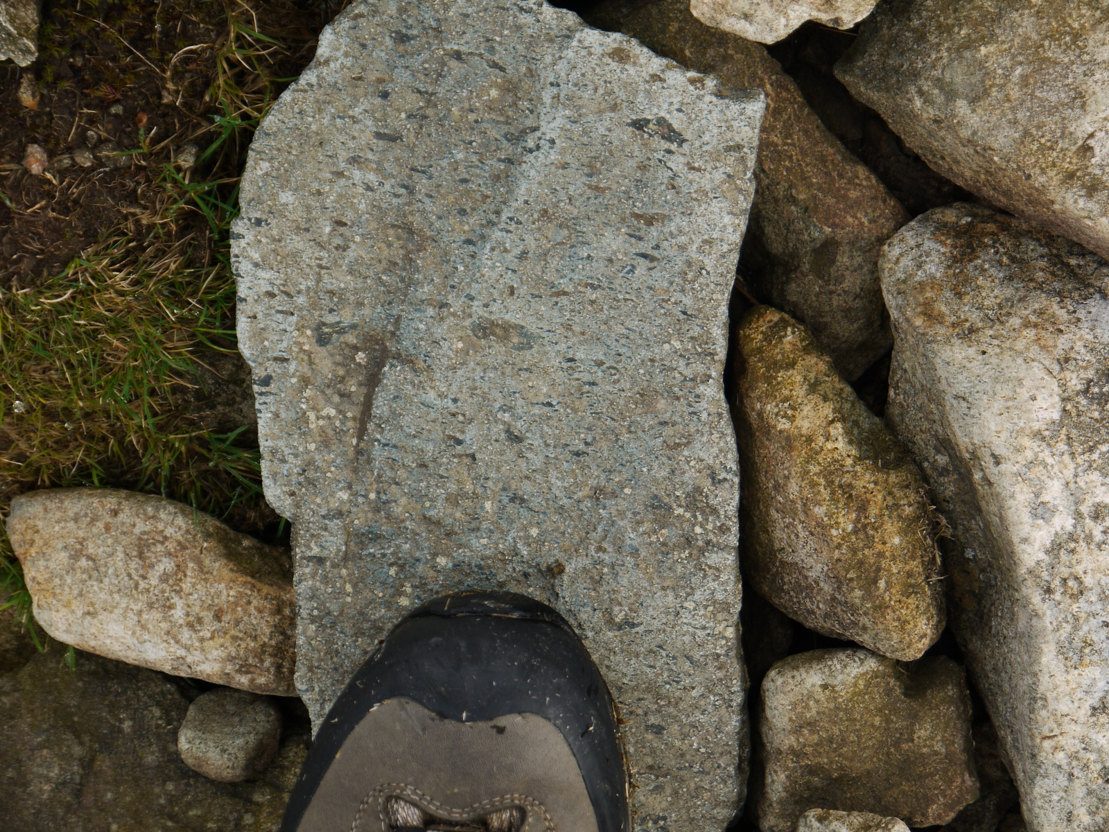 Piece of dacitic lapilli-tuff rock of the Helvellyn Tuff Formation (part of the Borrowdale Volcanic Group), found on High Crag (Nethermost Pike) in the Helvellyn Range of the English Lake District